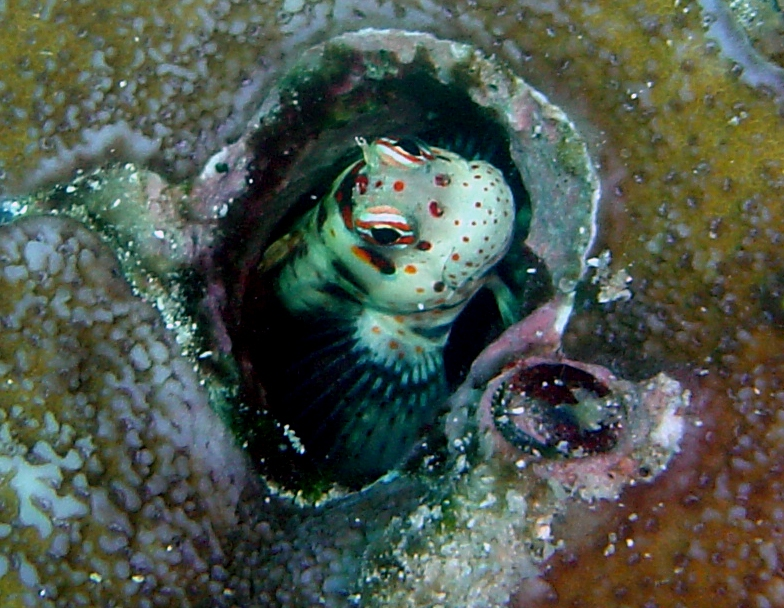 Redspotted blenny (Blenniella periophthalmus) Image ID: reef0942, NOAA's Coral Kingdom Collection Location: Guam, Mariana Islands